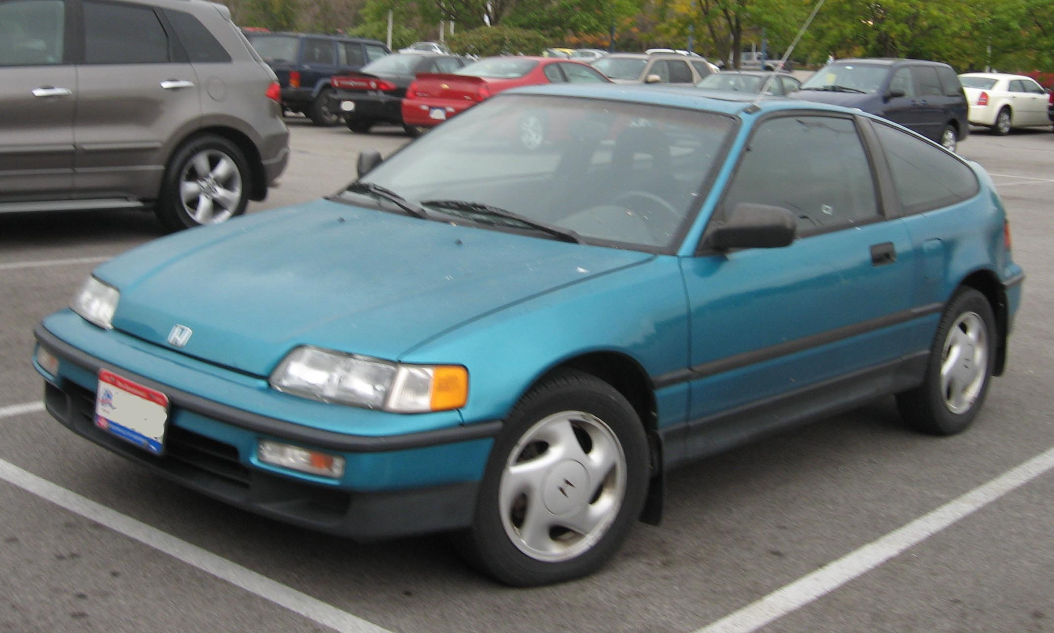 1990-1991 Honda CRX photographed in Toledo, Ohio, USA.